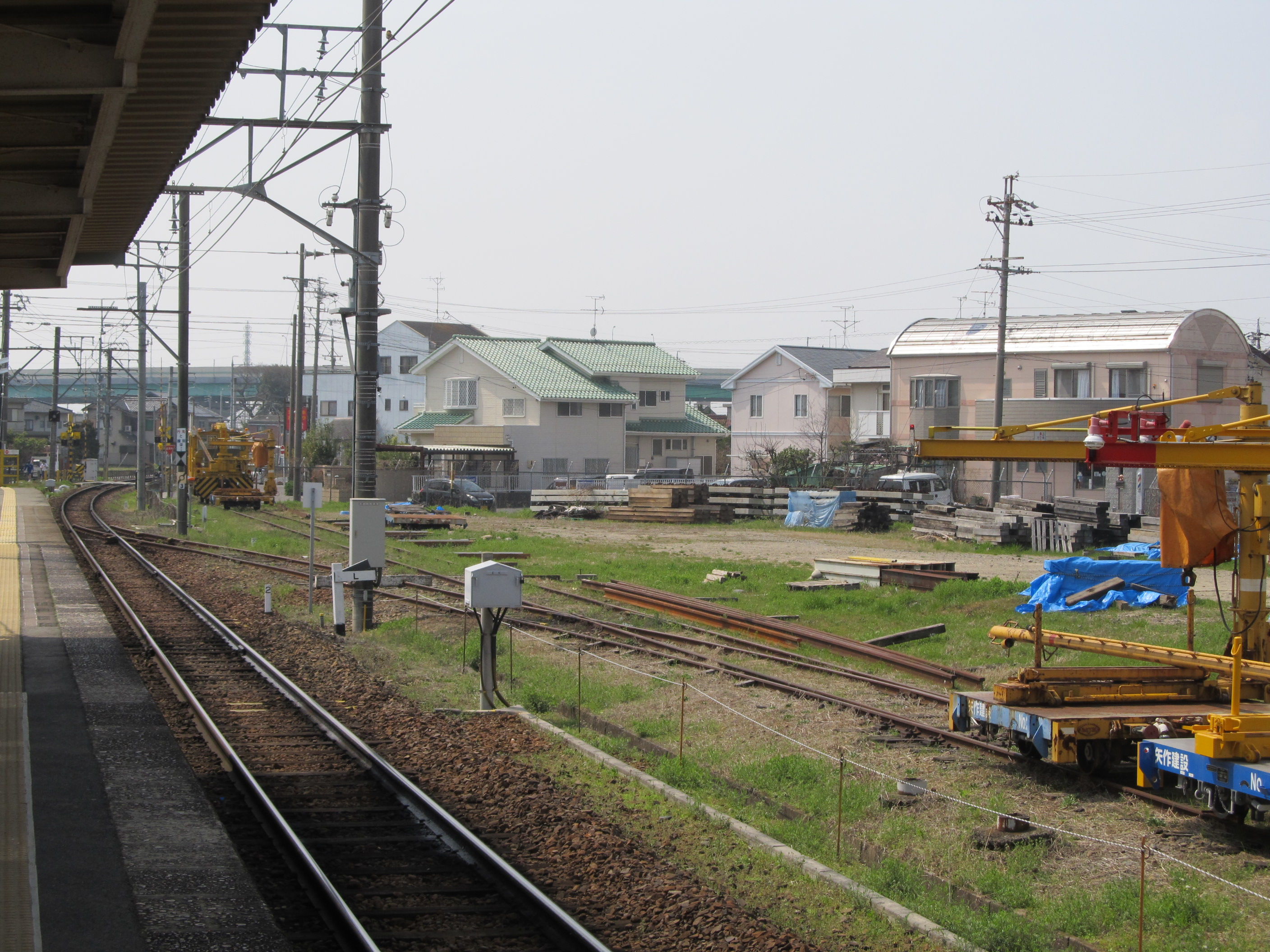 Nagoya Railroad Bisai Line Kannonji Station Sidetrack.